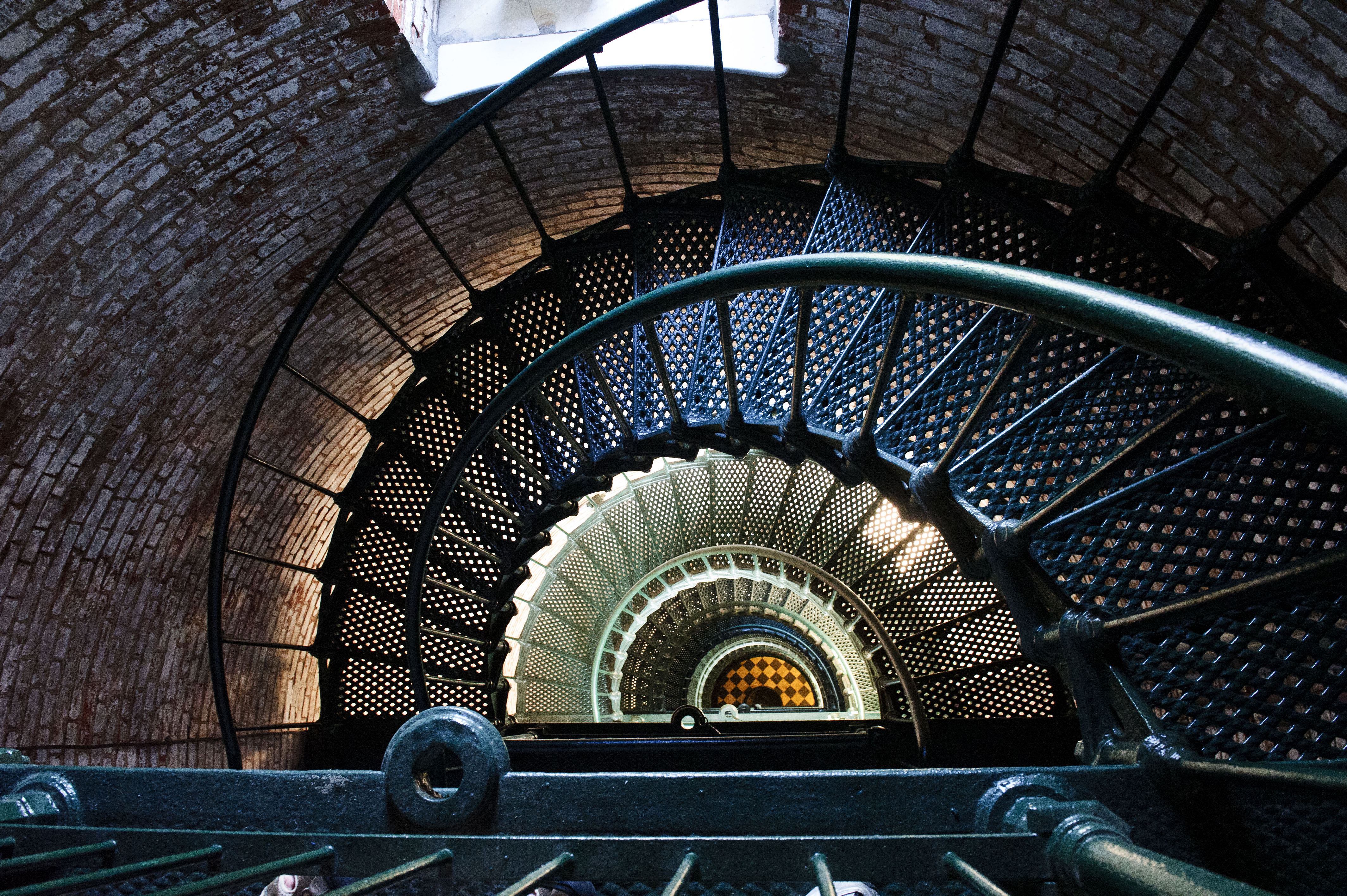 Inside Currituck Beach Light, located in Corolla, North Carolina, USA